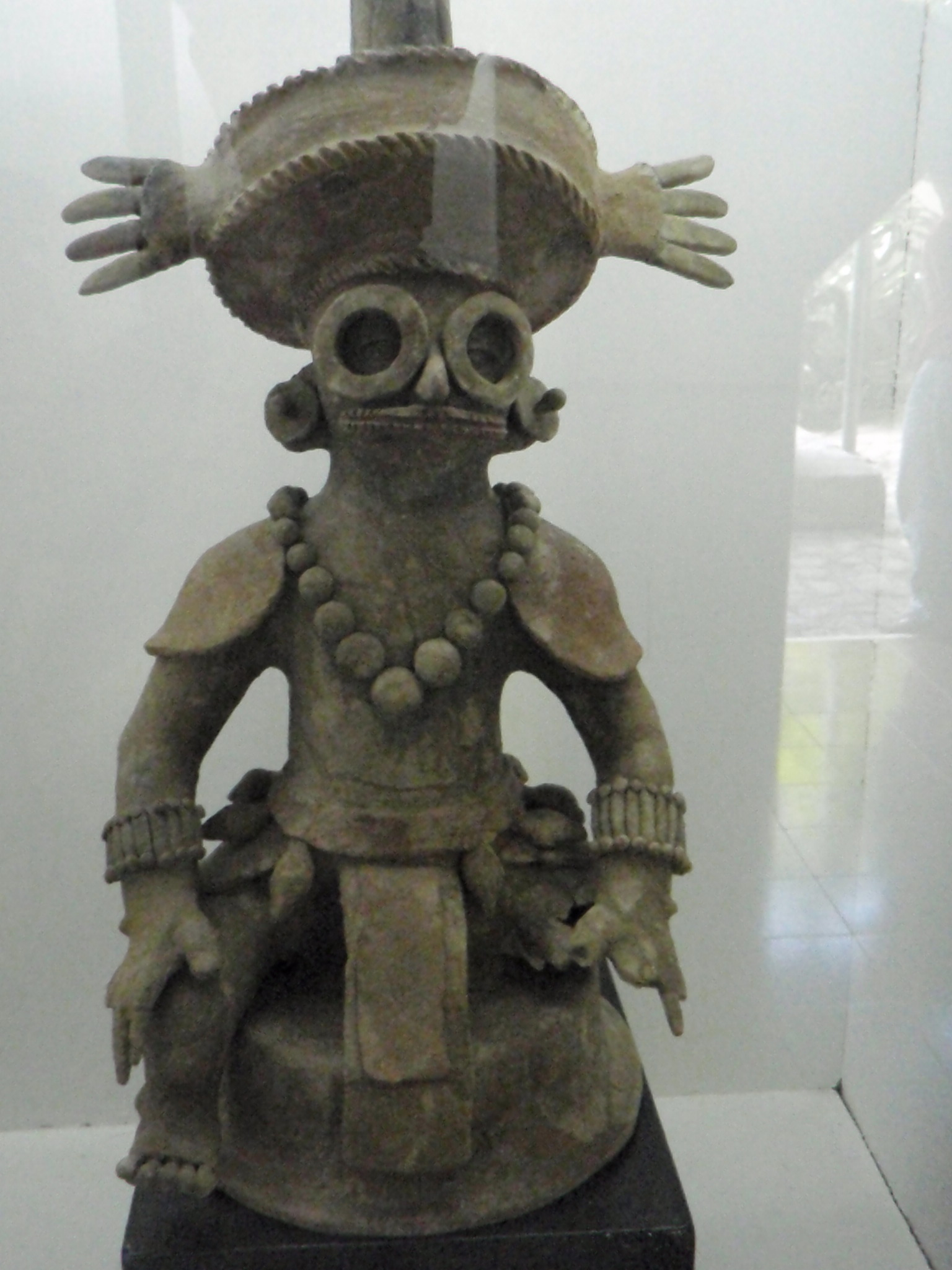 Incense burner from Classic Maya Period, around 7th century CE, found at the site of Copan and displayed at the Copan Ruinas town museum. It is believed to depict K'inich Yax K'uk' Mo', the founder of Copan's longest-running and most powerful dynasty of the Classic Period.